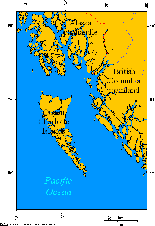 Queen Charlotte Islands, off the coast of British Columbia. The lower tip of the Alaska panhandle can be seen at the top of this map.